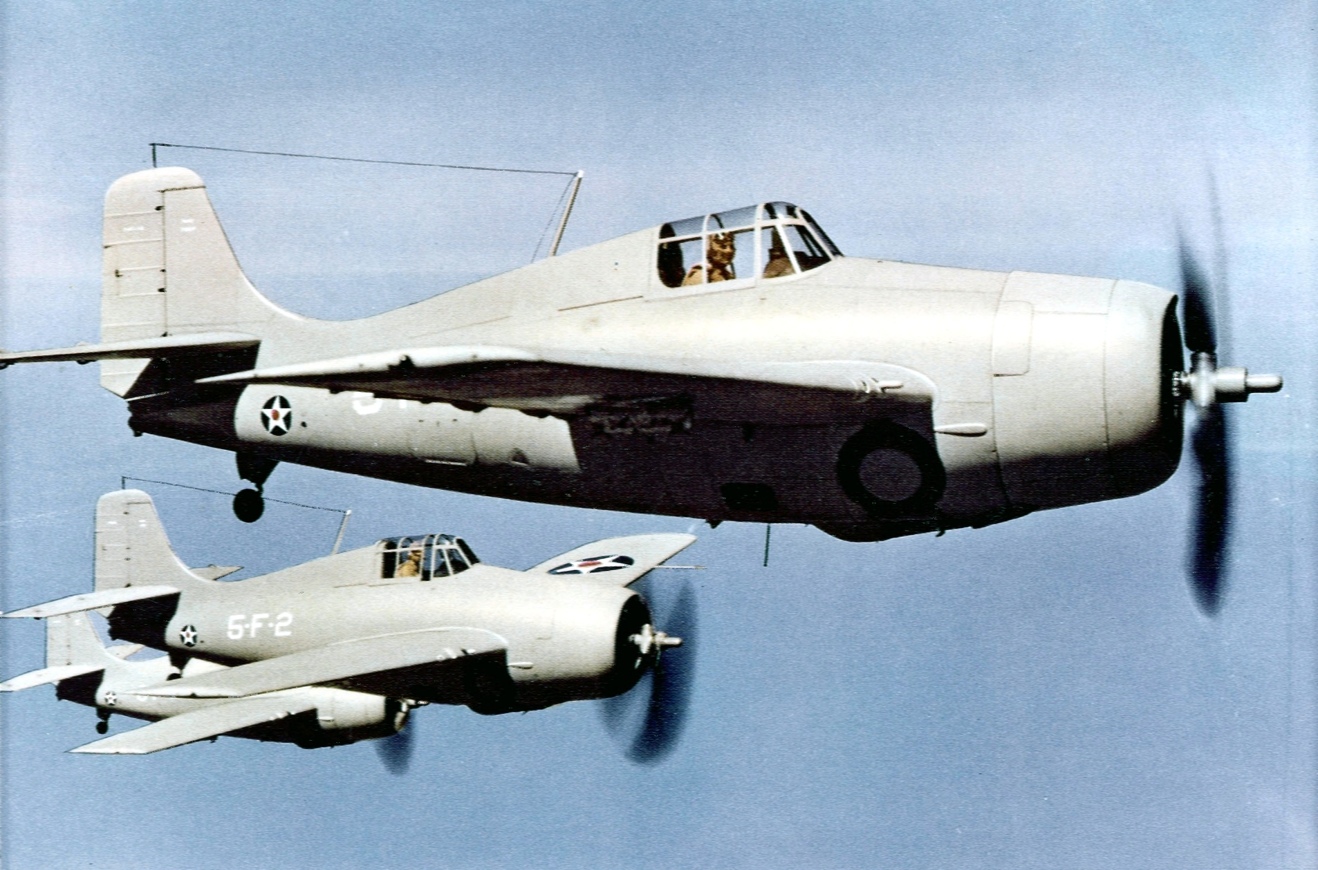 Three U.S. Navy Grumman F4F-3/3A Wildcats of Fighting Squadron VF-5 from the aircraft carrier USS Yorktown (CV-5) flying in formation, circa 1941.